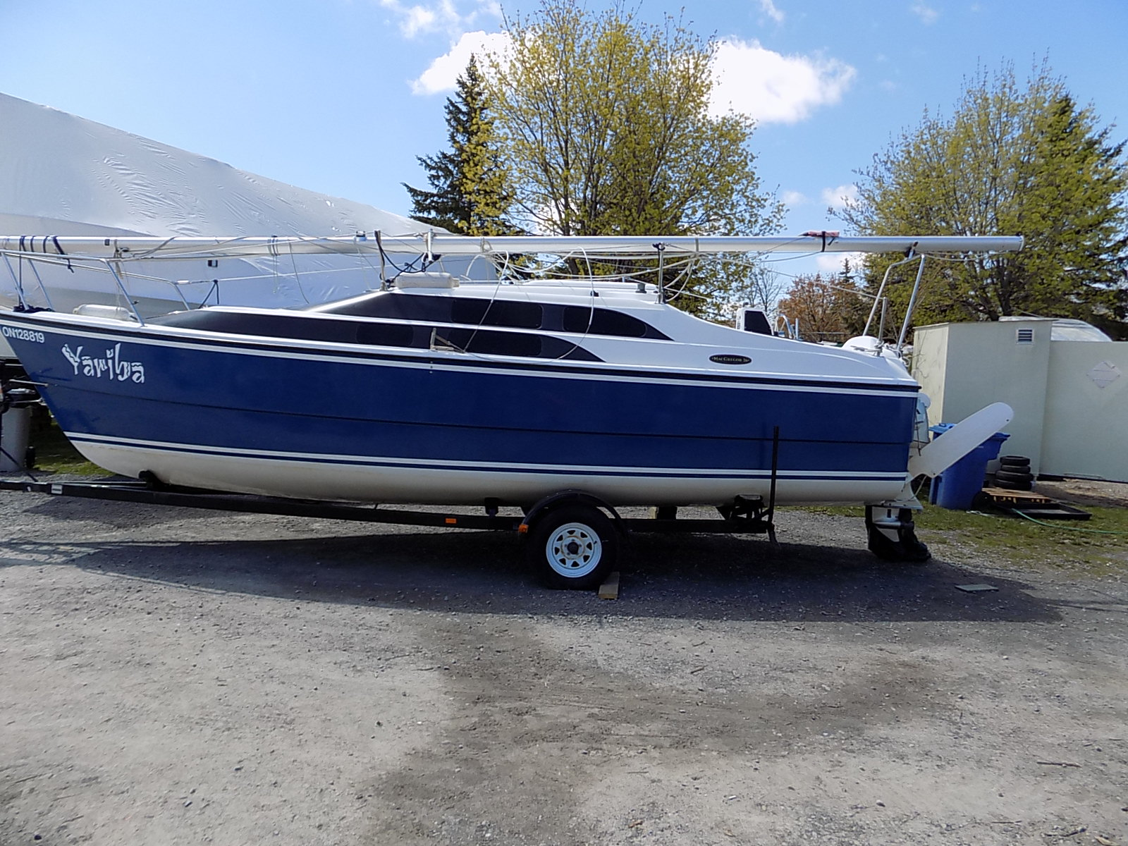 A MacGregor 26M sailboat, named Yariba on its trailer.